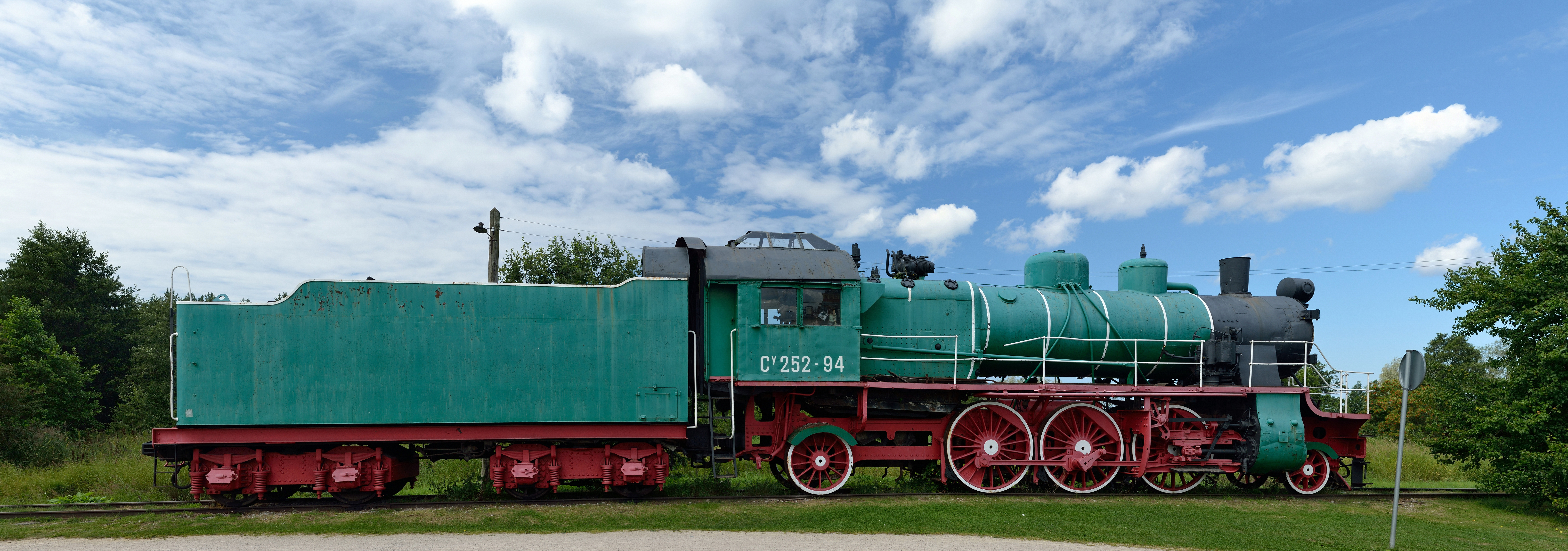 Steam locomotive Su 252-94 in Haapsalu (Estonia)